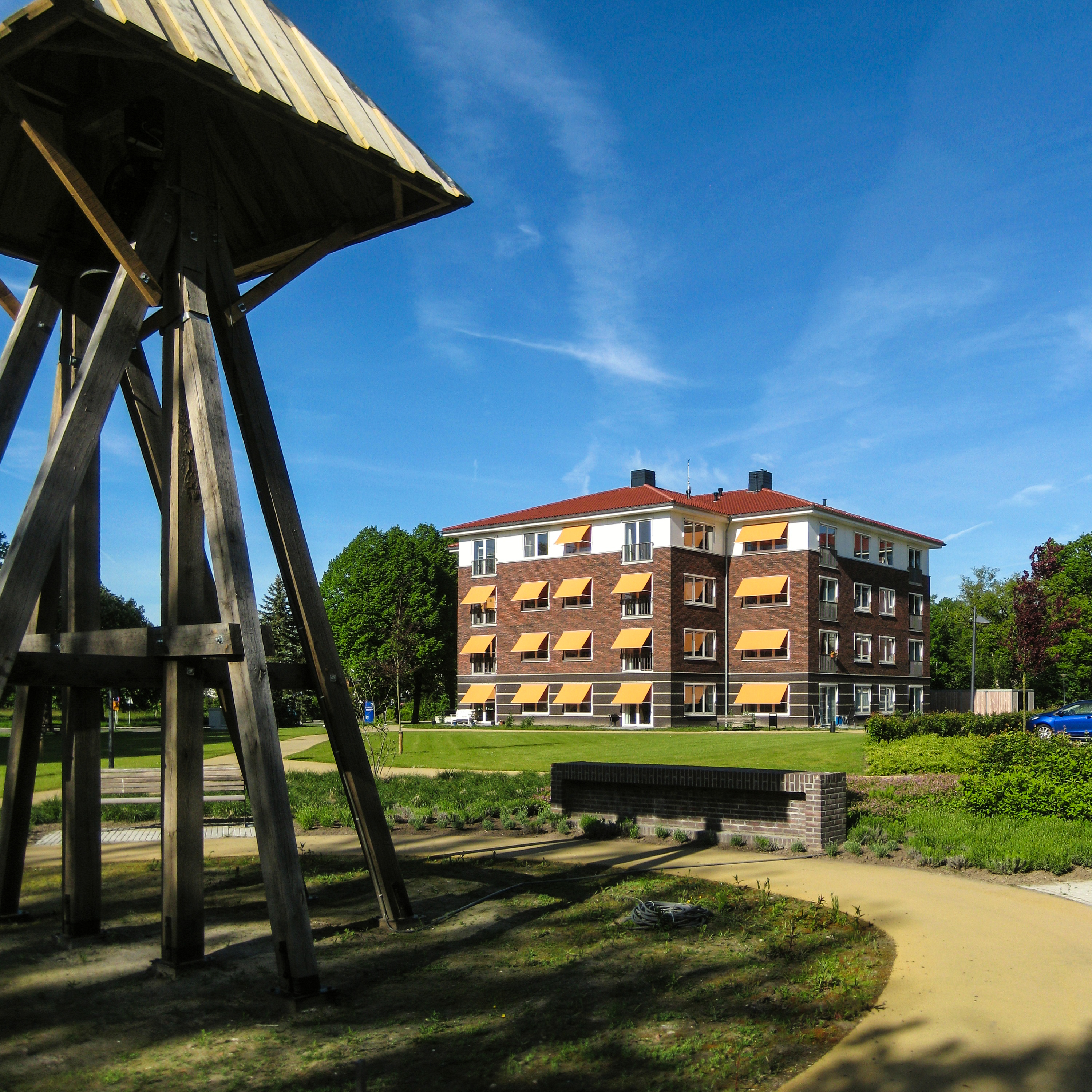 Apartment building and wooden bell tower in Haren, a village in the Dutch province of Groningen.